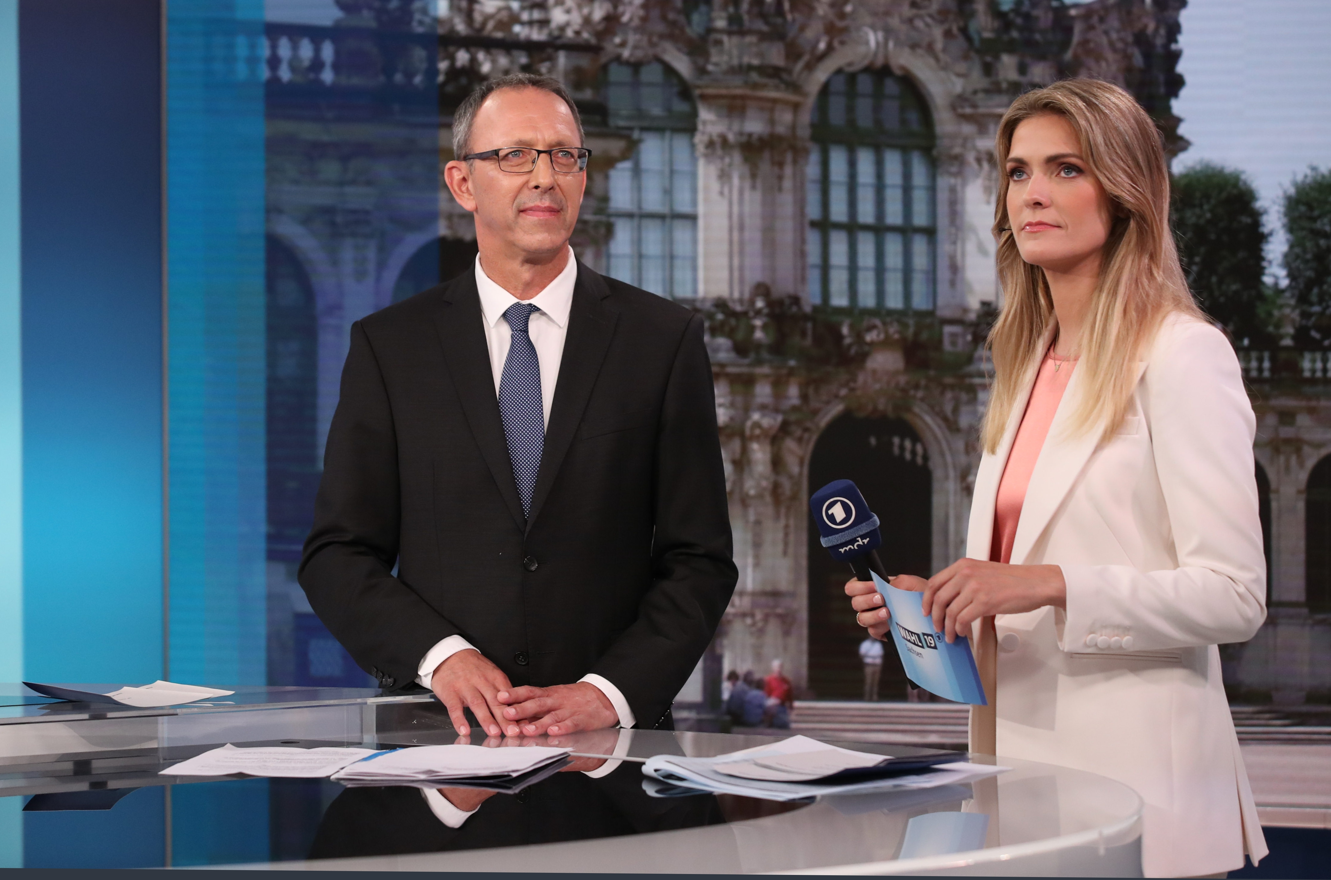 Election night Saxony 2019: Jörg Urban (AfD), Wiebke Binder (MDR)